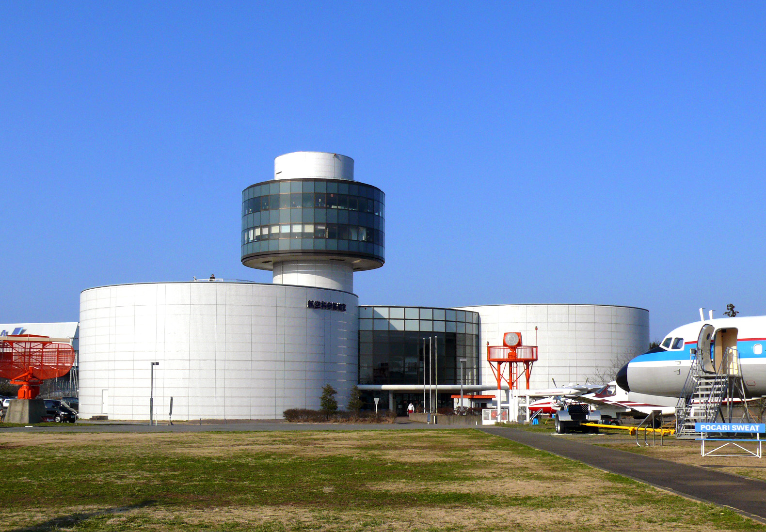 Museum of Aeronautical Sciences(Japan, Chiba, Narita).